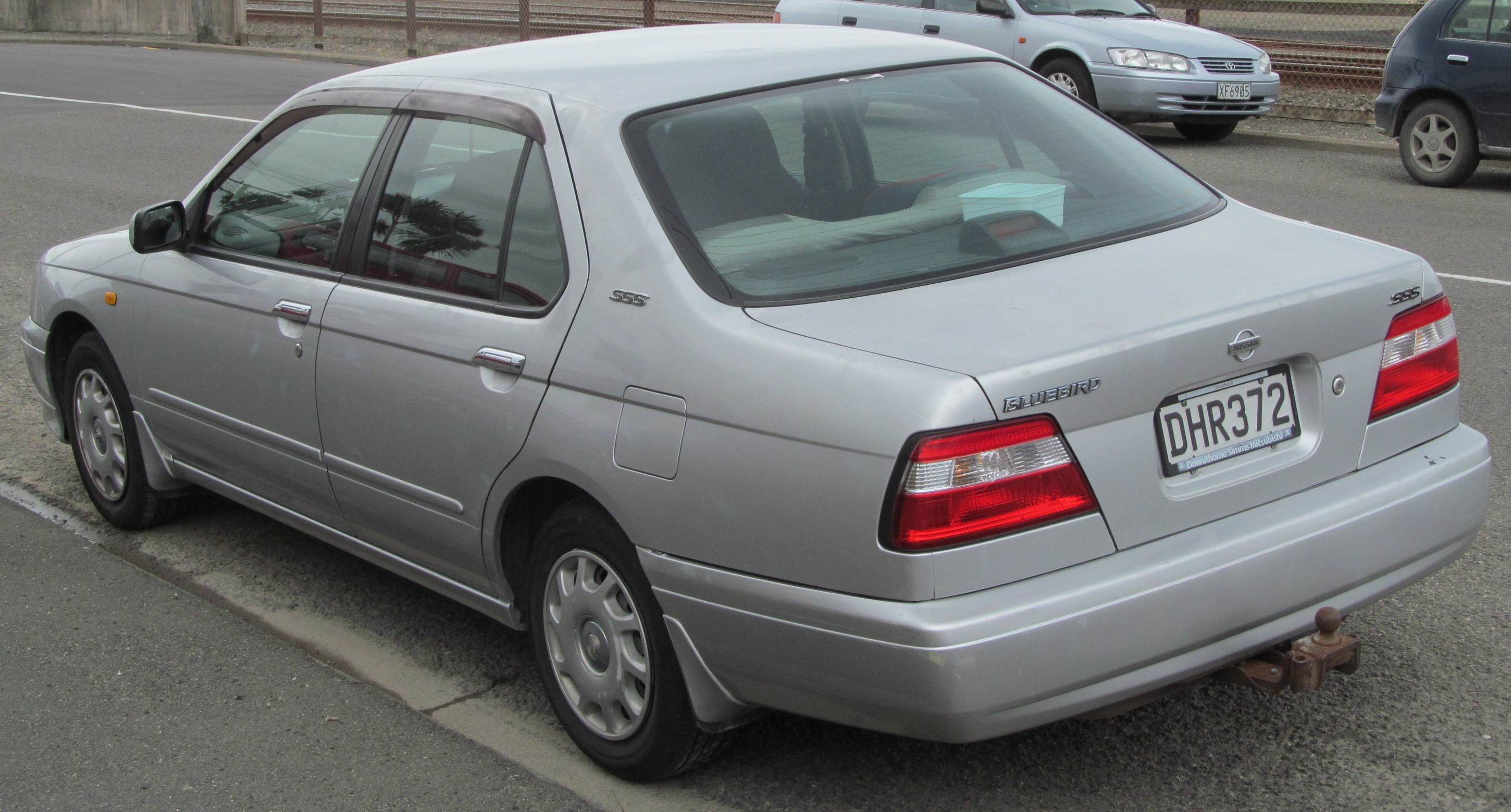 Nissan Bluebird SSS (U14) in New Zealand.